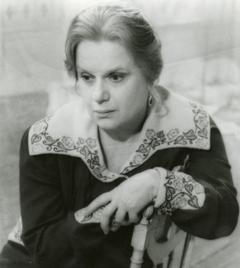 Despo Diamantidou in Promise at Dawn - US publicity still (cropped)